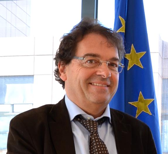 Rudy Aernoudt, Head of Cabinet EESC 2013